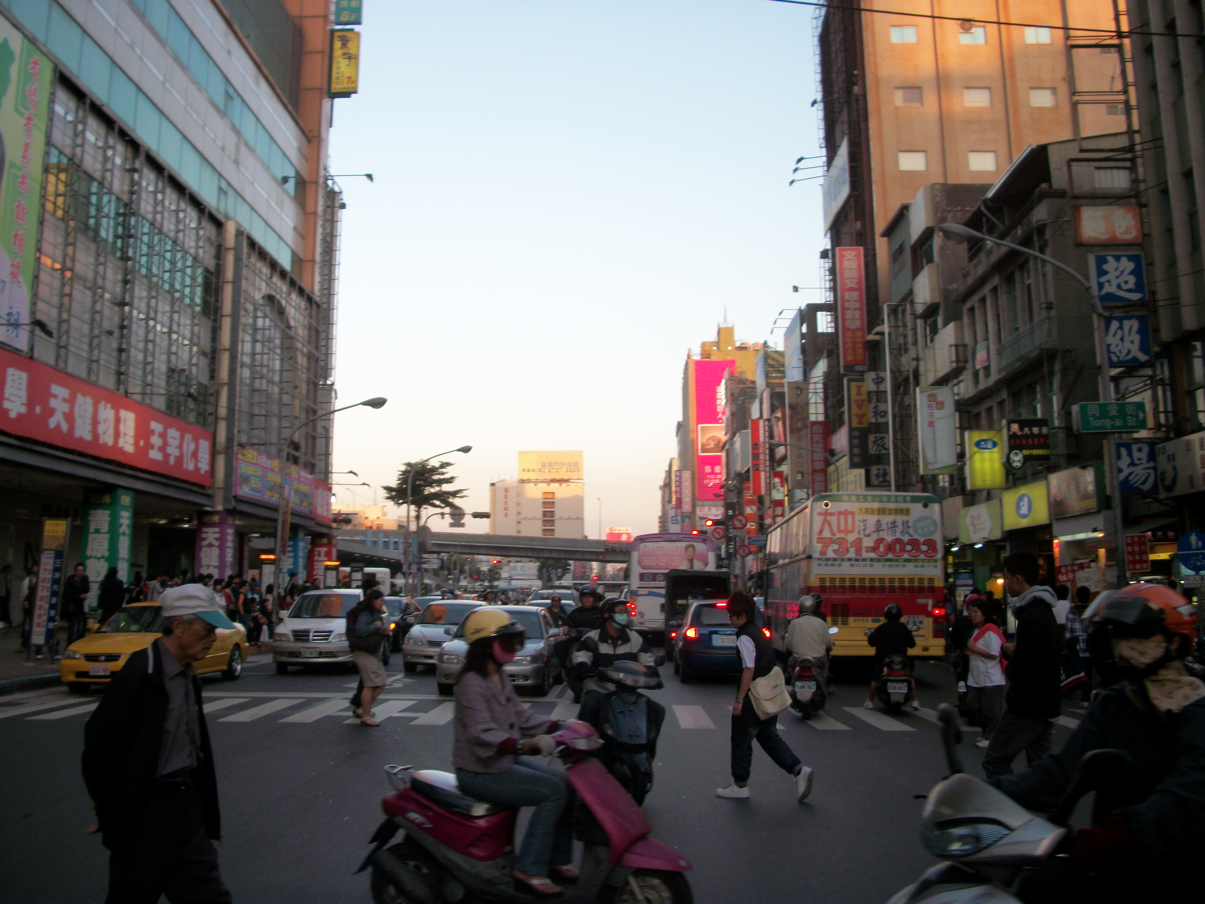 Looking eastward alongside the Jianguo 3rd Road in Kaohsiung City,Taiwan.The photo was taken from the intersection of Tongai Street,near Kaohsiung Station.